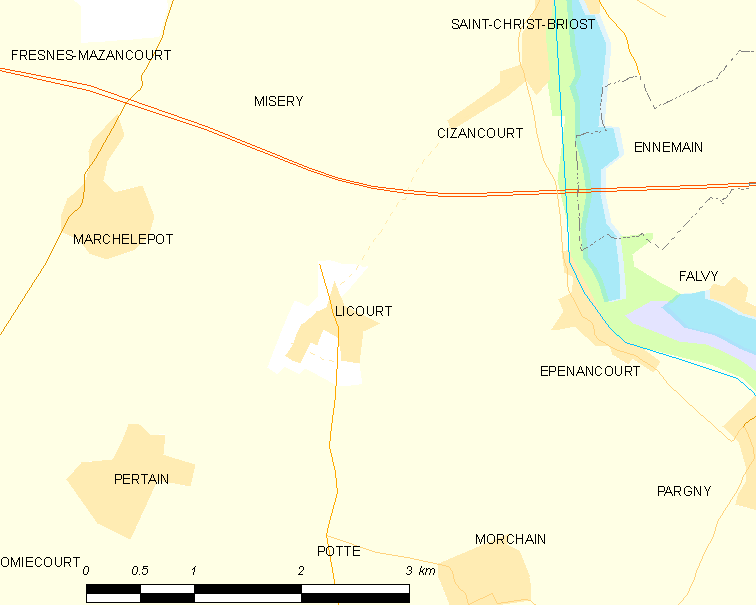 Map of French municipality Licourt